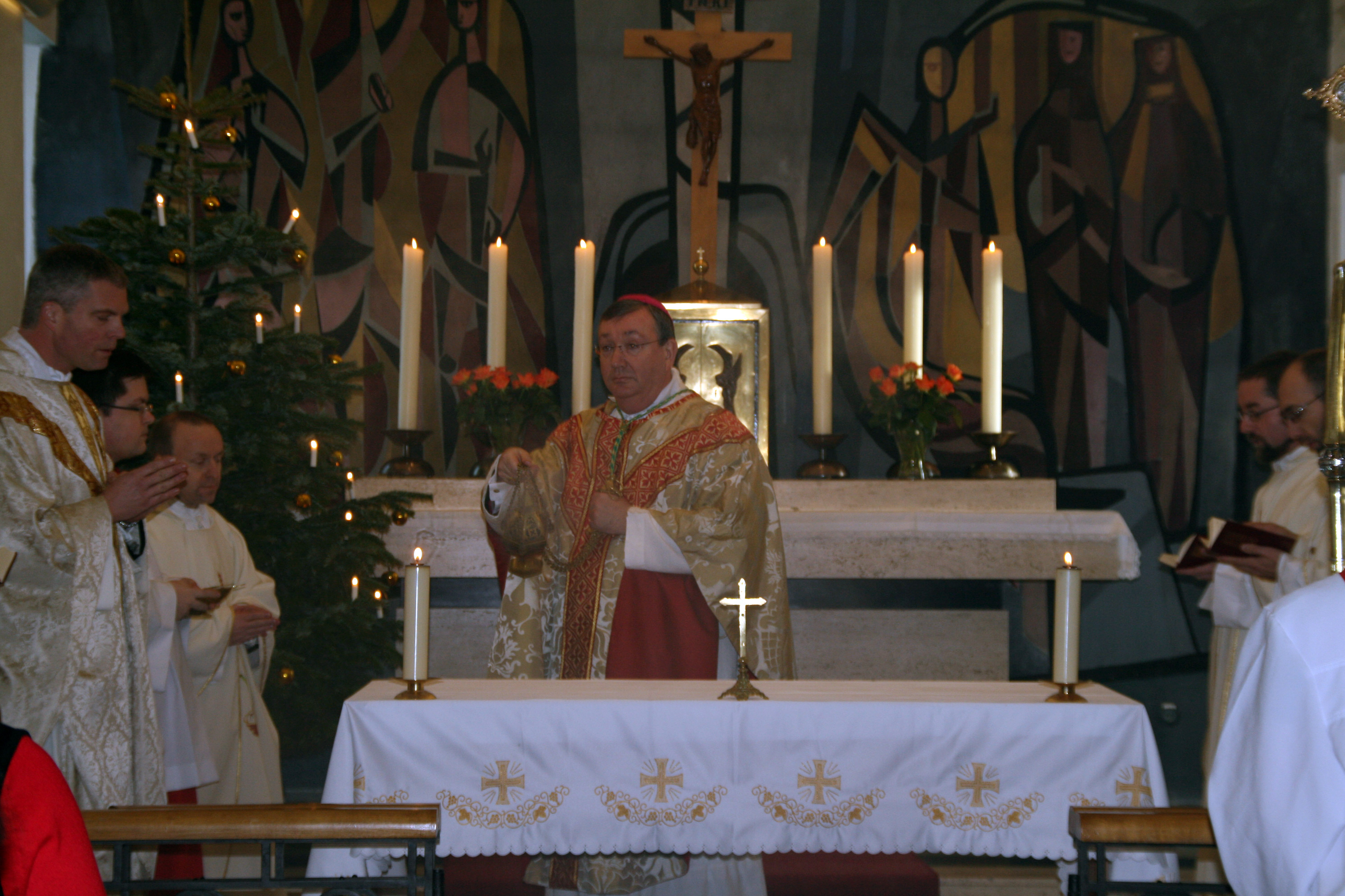 Blessing of the St. Franciskus Xaverius church in Arendal, 3.jan 2010